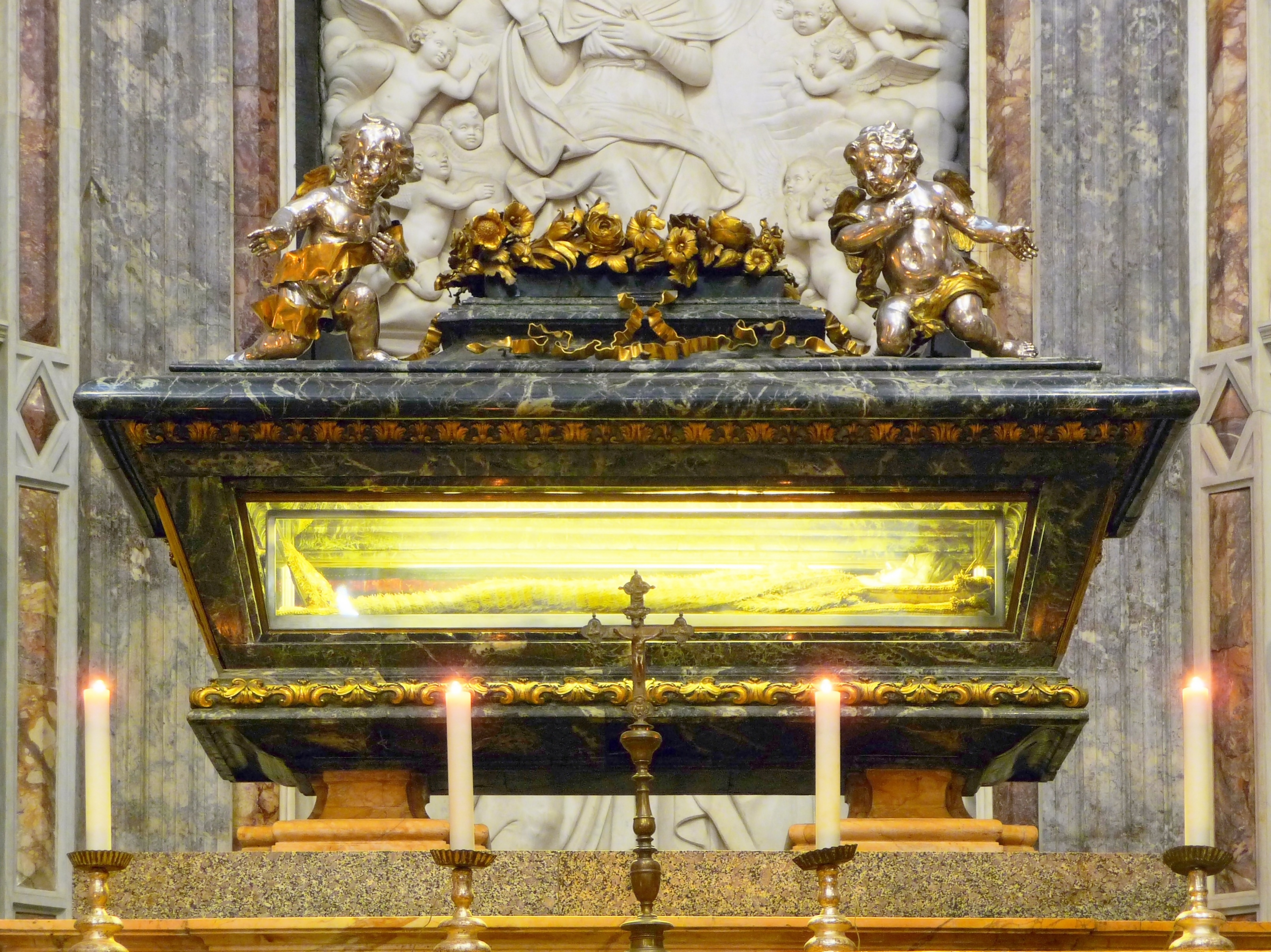 Tomb of Saint Rainerius (San Ranieri), Cappella di San Ranieri, Cathedral in Pisa, Italy